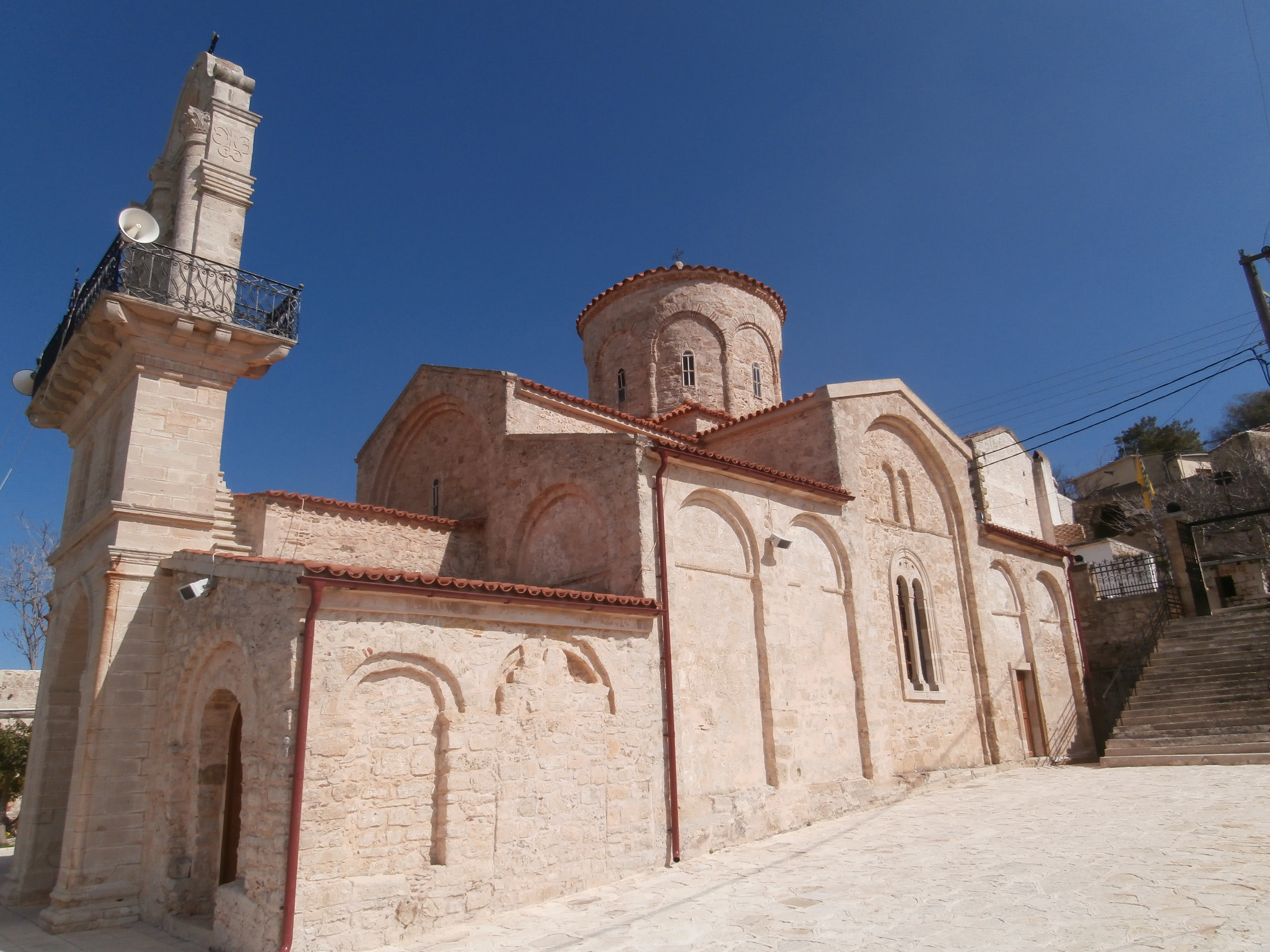 The vyzantine church of Agios Myron in Agios Myron (Agios Myronas) village.